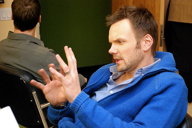 Joel McHale on April 18, 2010